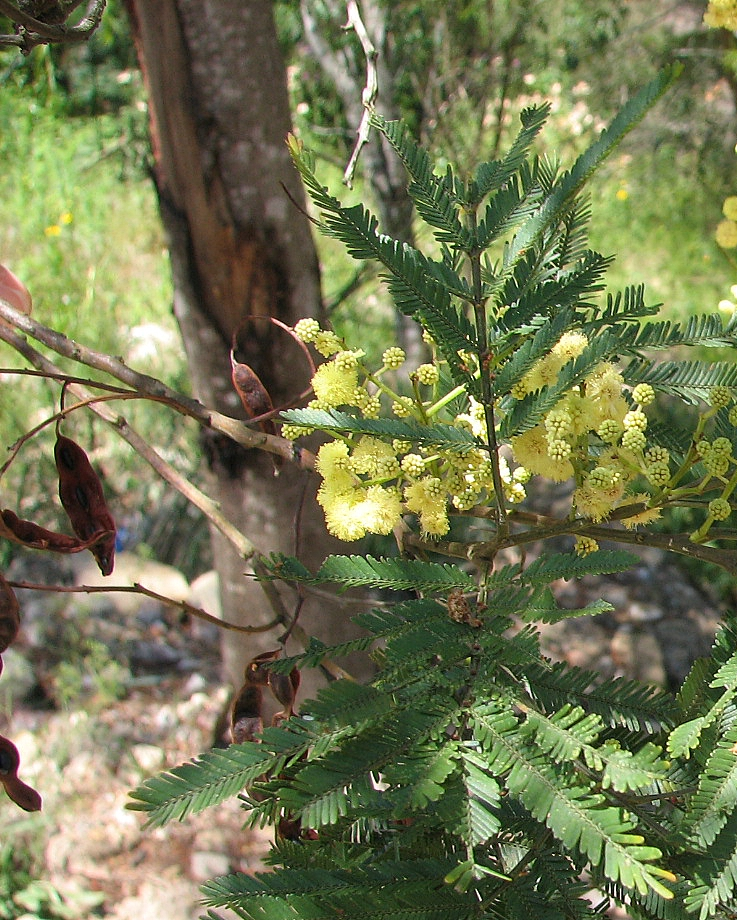 Parramatta Wattle (Acacia parramattensis), taken by me at Garigal National Park, Sydney